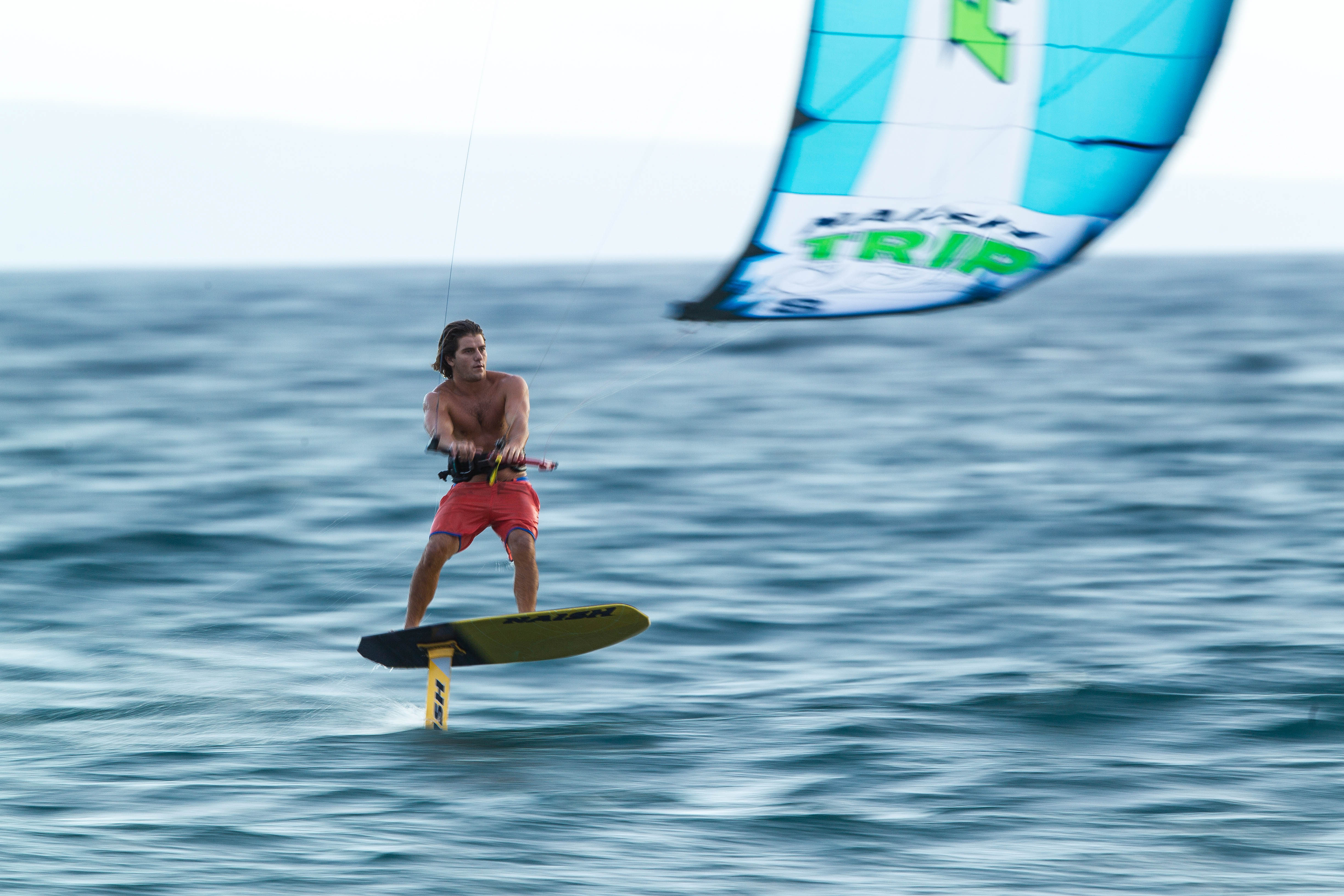 Jesse Richman, an American kitesurfer and kiteboarder.